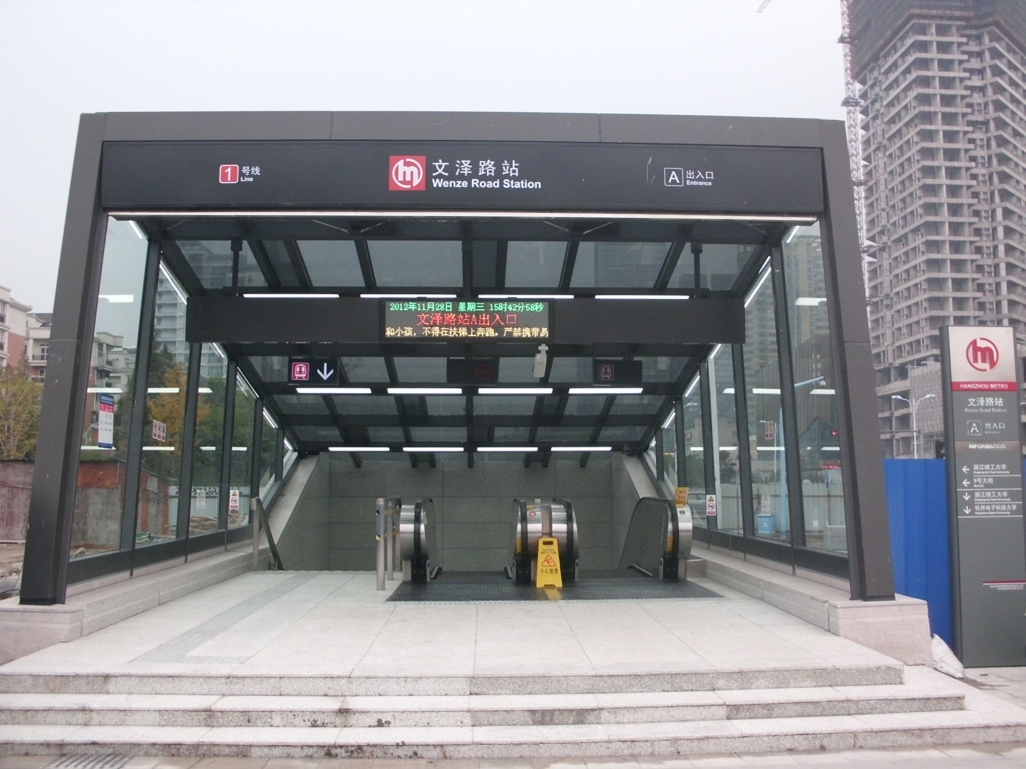 Wenze Road Station